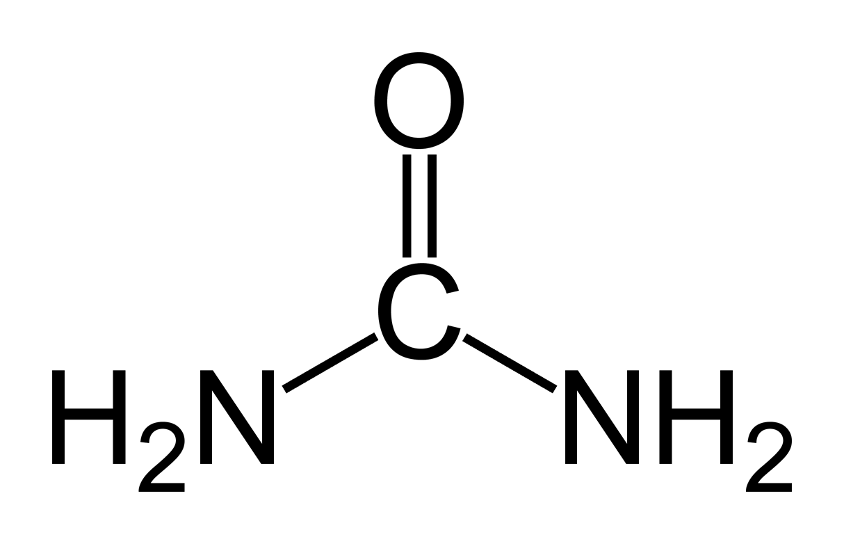 Structural formula of urea (diaminomethanal, carbamide; CH4N2O). High-resolution black and white PNG; ChemDraw / Photoshop.